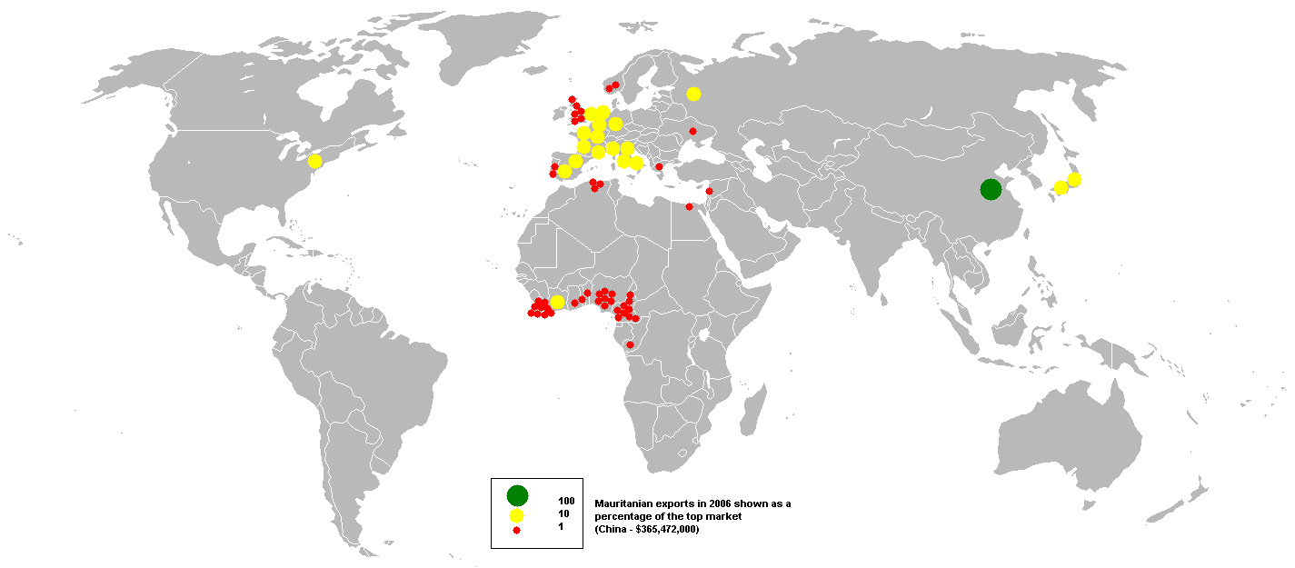 This bubble map shows the global distribution of Mauritanian exports in 2006 as a percentage of the top market (China - $365,472,000). This map is consistent with incomplete set of data too as long as the top producer is known. It resolves the accessibility issues faced by colour-coded maps that may not be properly rendered in old computer screens. Data was extracted on 19th September 2007 from Based on :Image:BlankMap-World.png